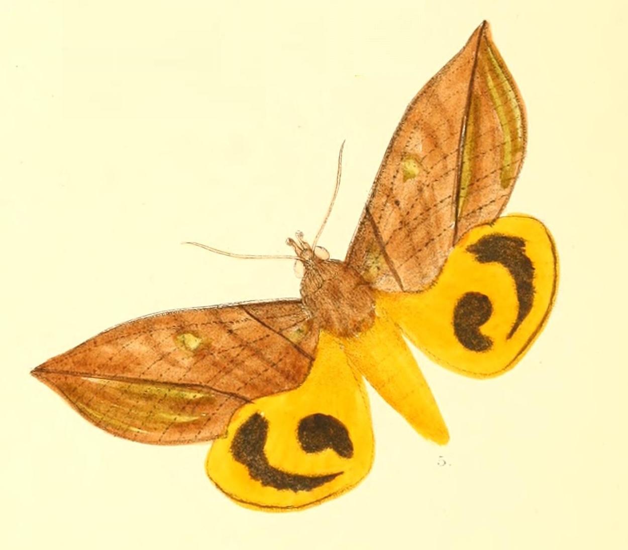 Adris tyrannus male Moore, Frederic 1880 On the genera and species of the Lepidopterous Subfamily Ophiderinae inhabiting the Indian Region. Zoological Society of London